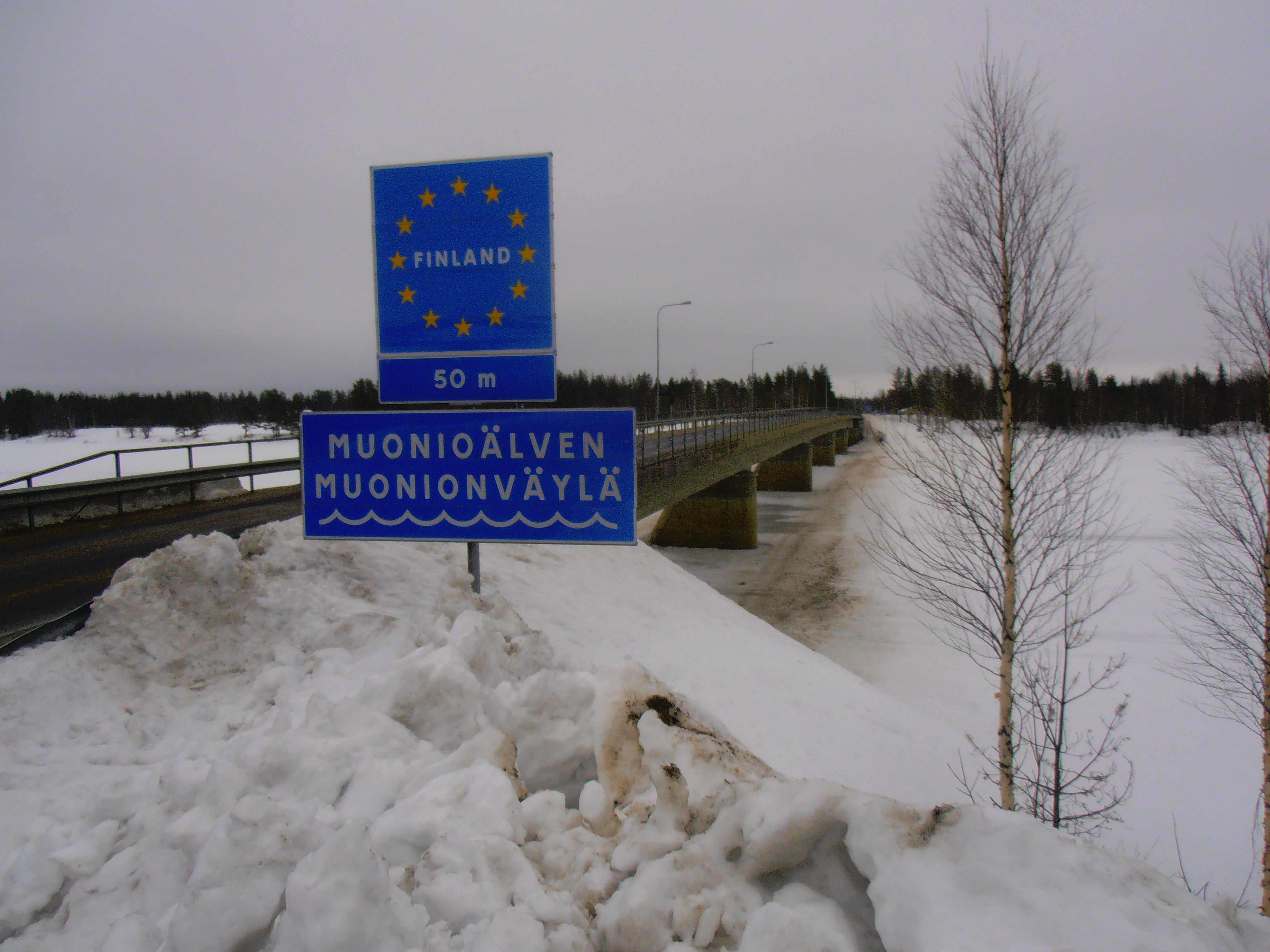 Kaunisjoensuu, Kolari, Pajala